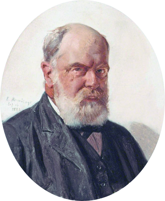 Self portrait oil on canvas 34.5 x 29.7 cm signed c.l.: E. Armitage / Sep 16 / 1882